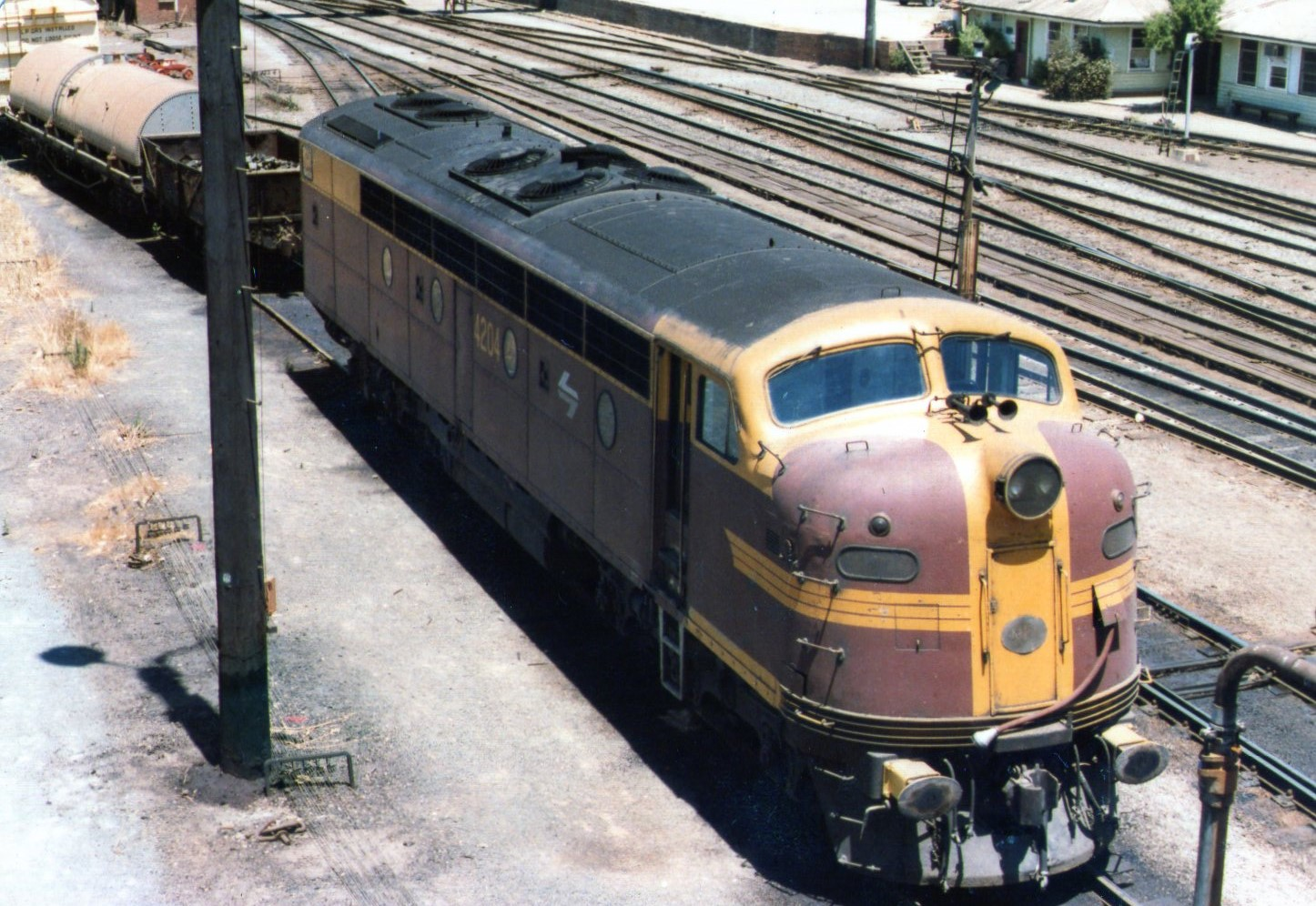 NSWR loco 4204 at Albury, ~1977